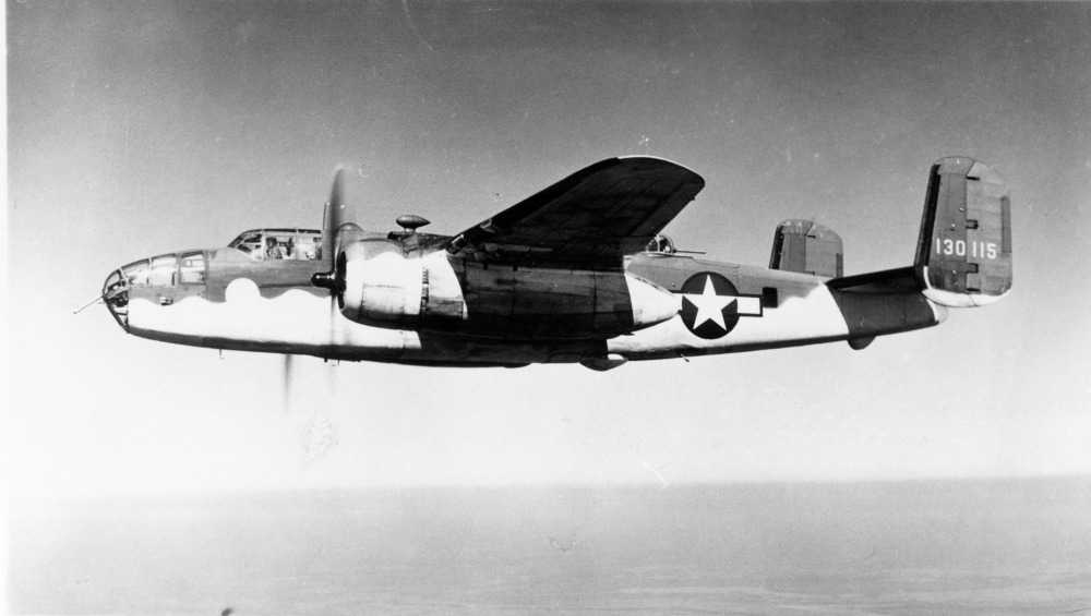 PictionID:40971160 - Title:Mitchell North American B-25D 41-30155 - Catalog:15_002822 - Filename:15_002822.tif - Image from the Charles Daniels Photo Collection album "US Army Aircraft."----PLEASE TAG this image with any information you know about it, so that we can permanently store this data with the original image file in our Digital Asset Management System.----SOURCE INSTITUTION: San Diego Air and Space Museum Archive